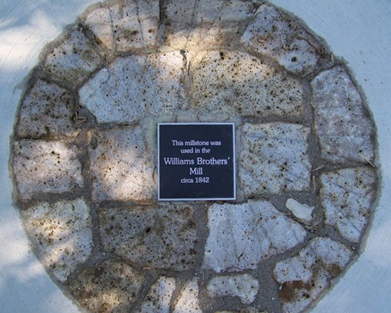 Picture of Williams Mill grindstone in Williamston. Taken by myself, and cropped by User:Desheffer. CC-sa license.